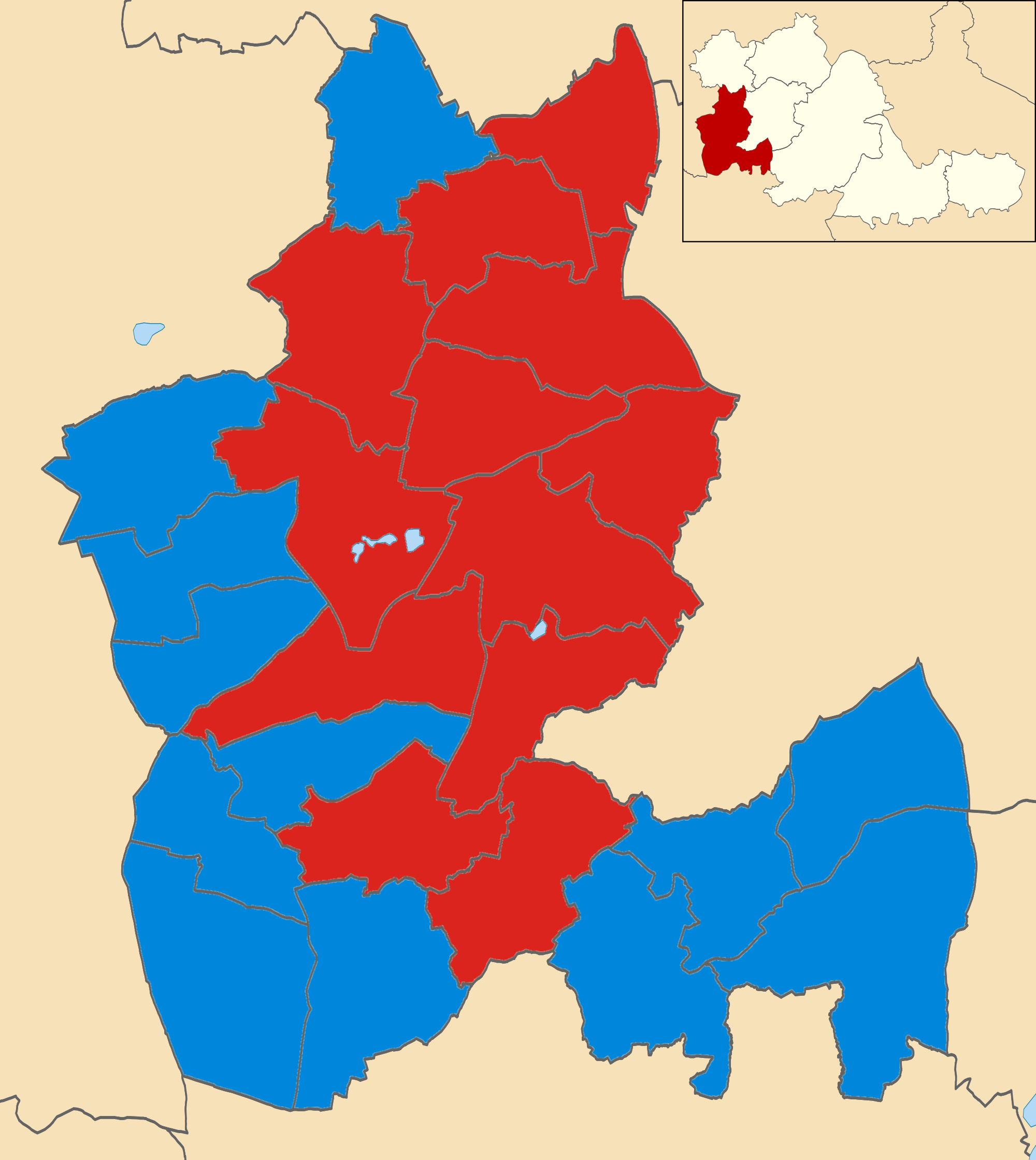 Results of the 2011 local elections in Dudley Colours: Conservative Labour